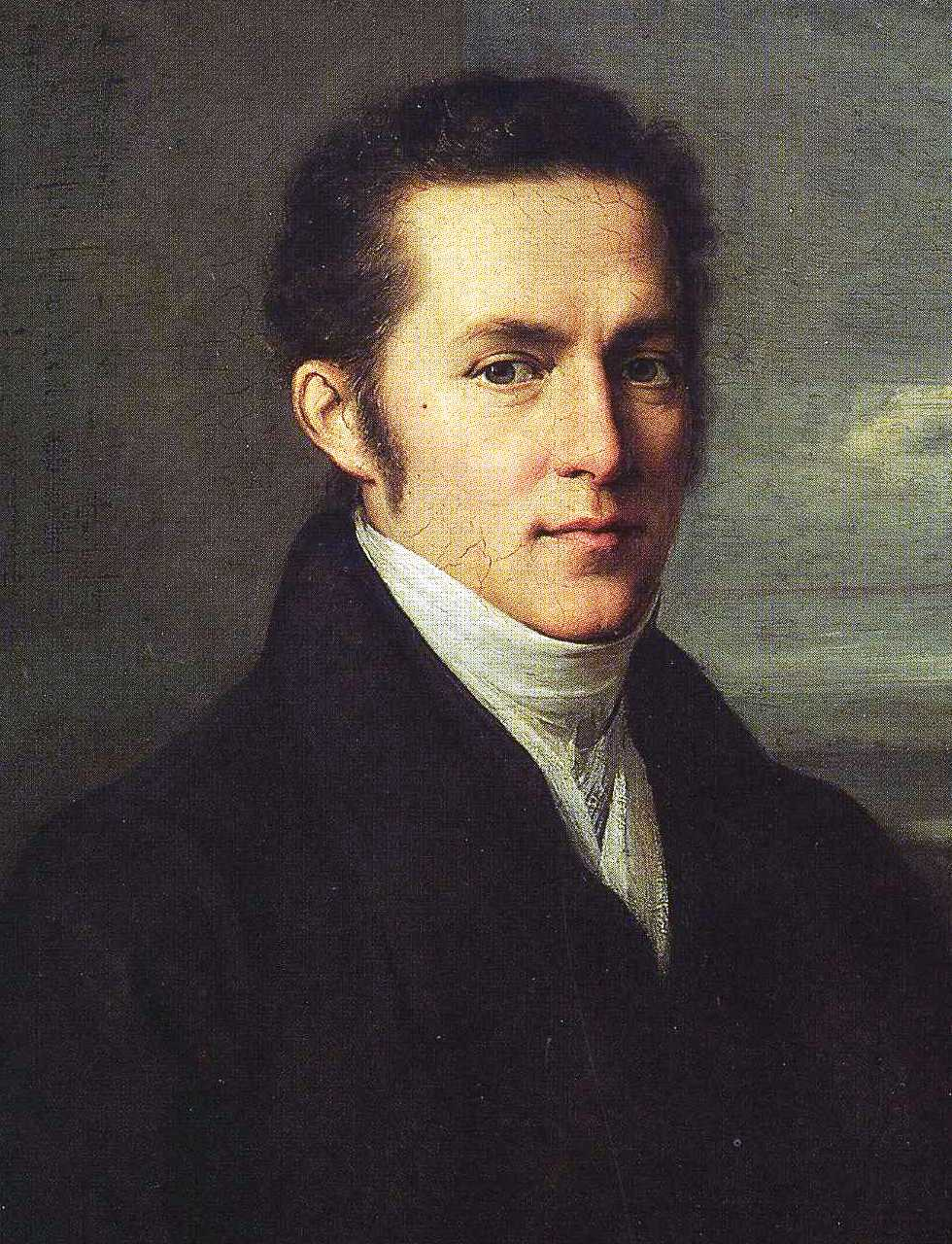 Carl Gustav Carus gemalt von Johann Carl Rössler